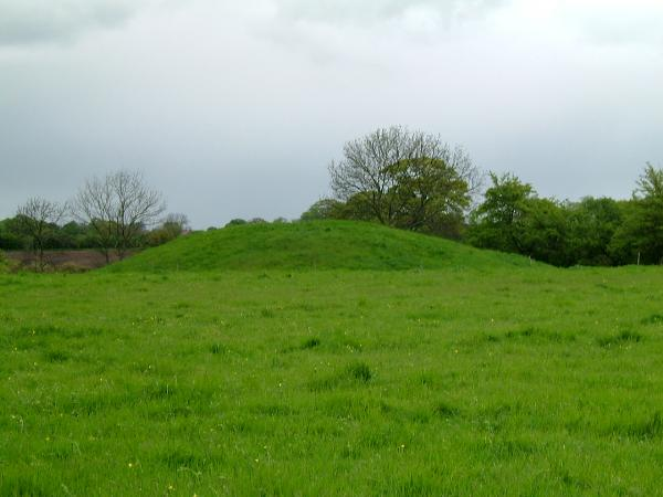 Pudding Pie Hill. For further info on this bronze age burial mound run round it nine times, stick an iron knife in the top and put your ear to the ground. If the folklore is true you will hear fairies chattering below. Alternatively try